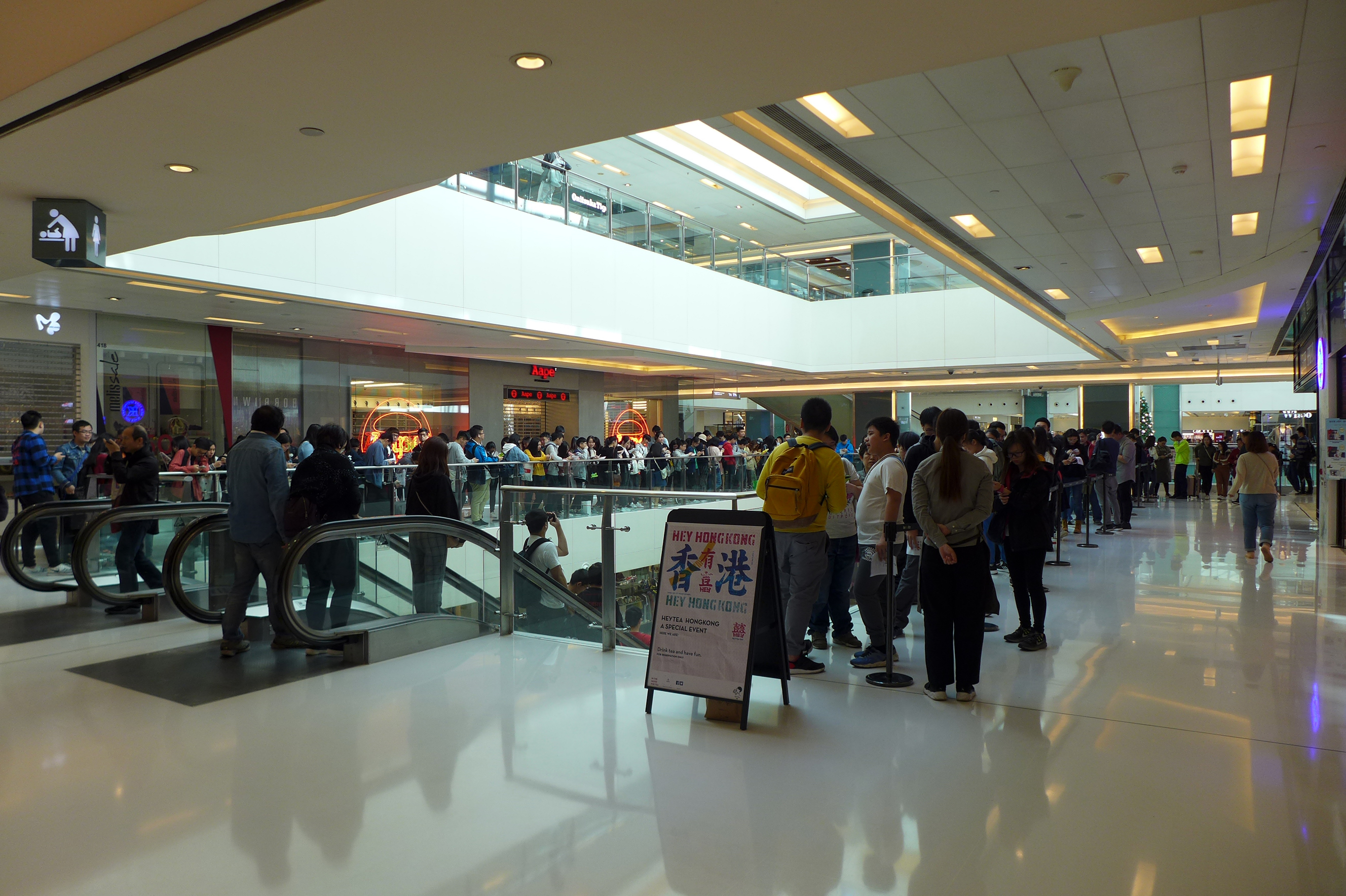 Hey Tea Queue in New Town Plaza